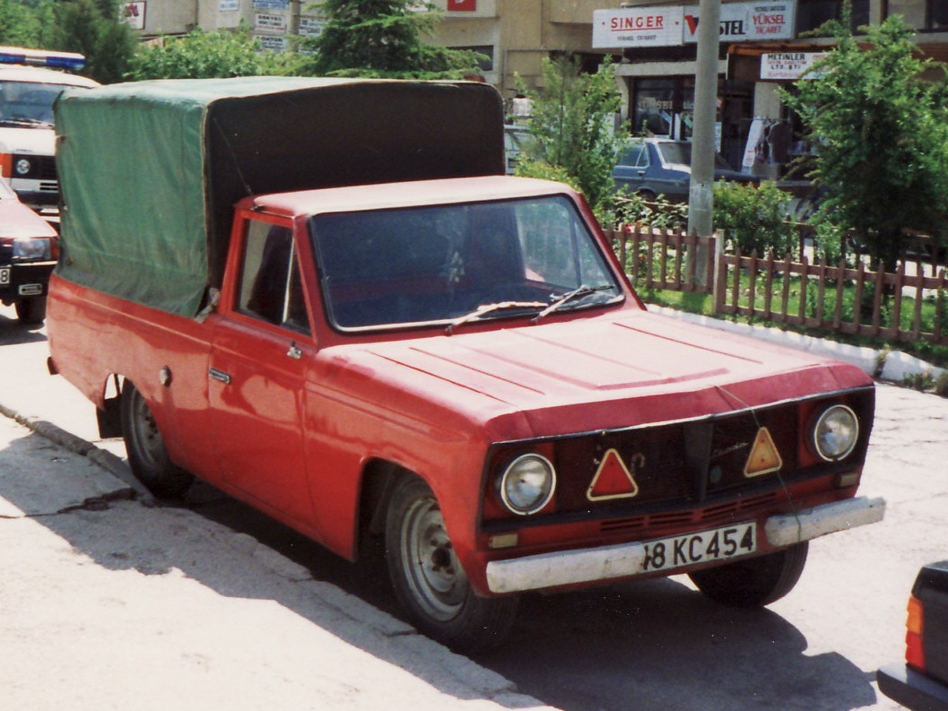 Spotted in Turkey in June 1993. Could be a locally built body built on a Skoda 1202 platform?